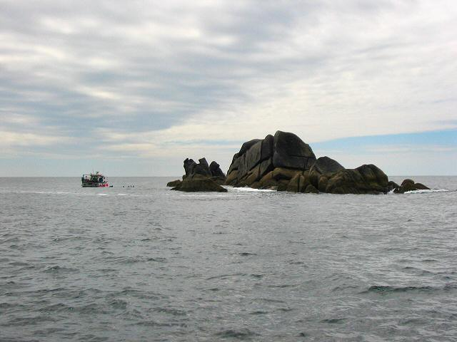 Trenemene from Gorregan. These rocks are on the edge of Scilly. It is very popular with scuba divers.